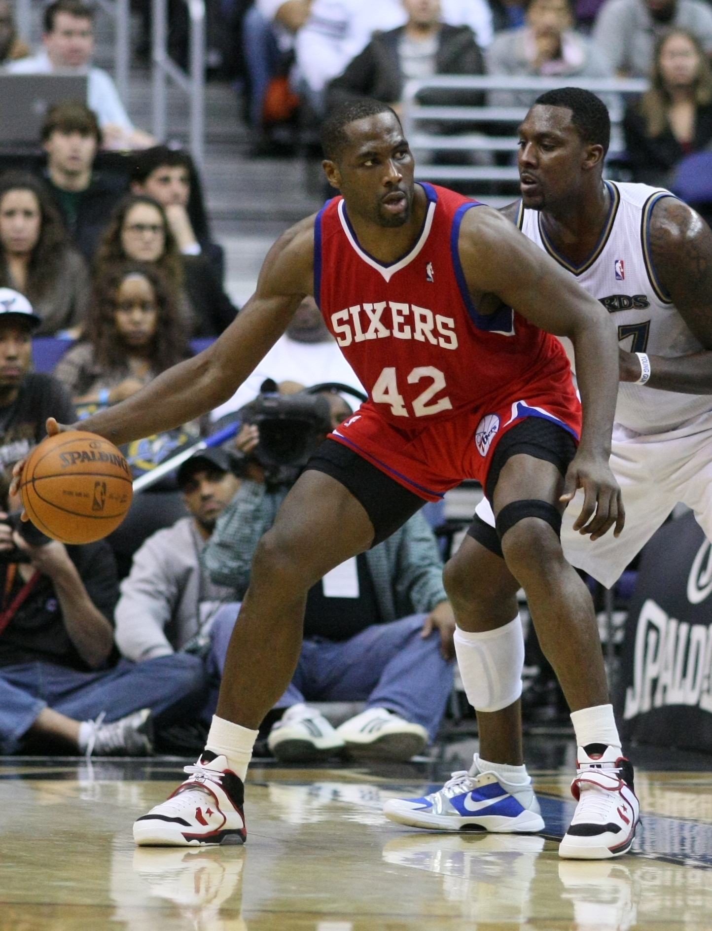 Washington Wizards v/s Philadelphia 76ers November 23, 2010